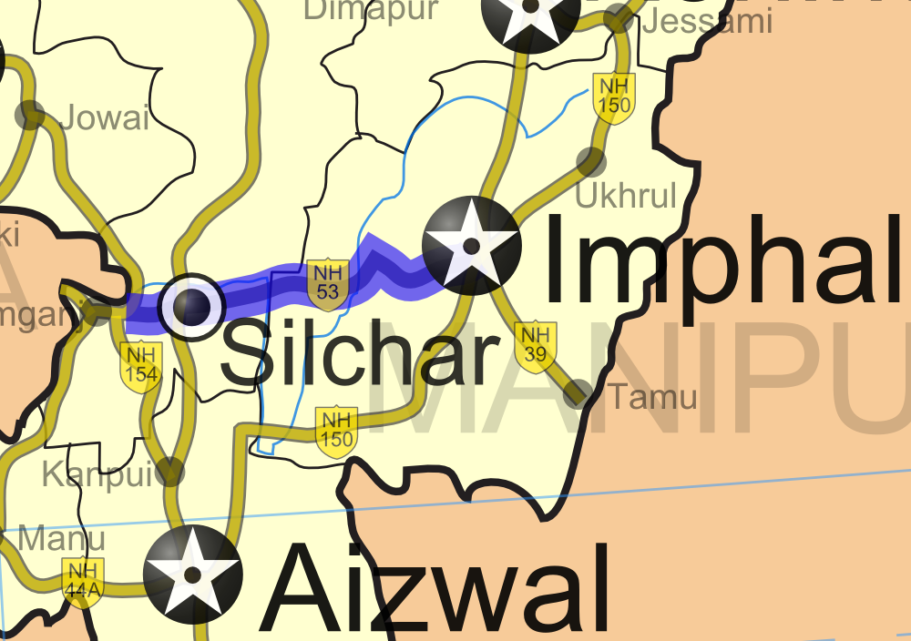 National Highway 53 in India